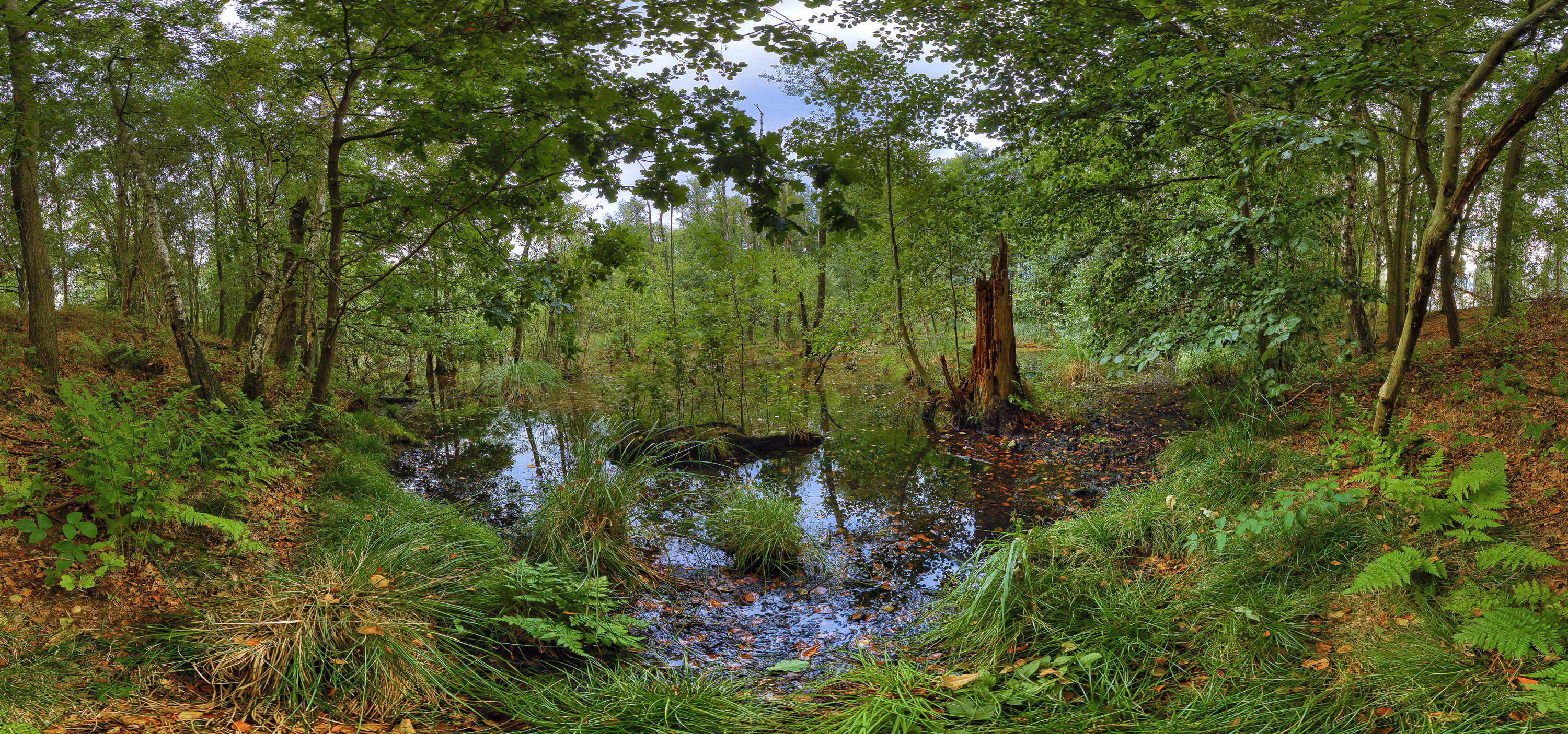 In the nature reserve heath oak rare plants grow. The say venerated Teufelsstein in Waldau or the Leinewehtal with its large Märzenbecherbestand in gold show are natural beauties with idiosyncratic appeal.